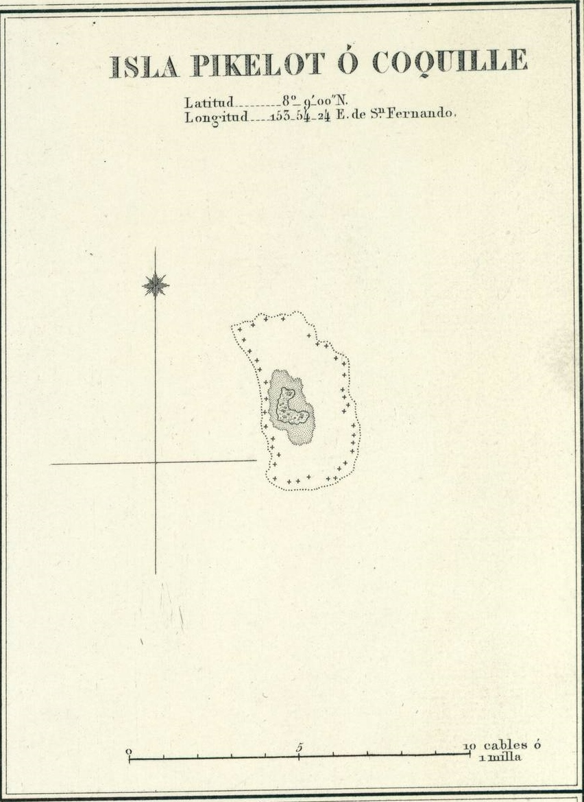 Detail of a Spanish 1886 map showing the island of Pikelot (Federated States of Micronesia)